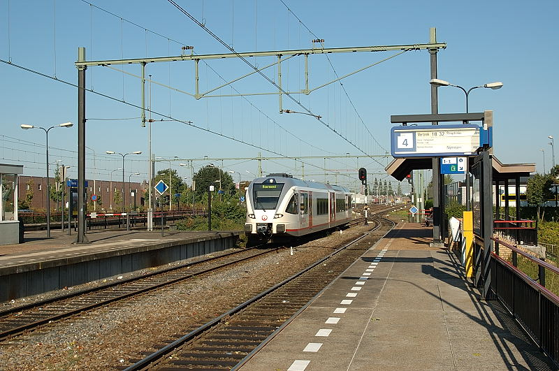 A Velios DMU arrives at the station of Blerick